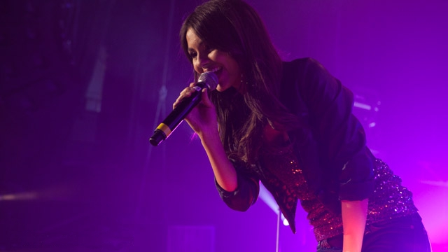 Victorious cast live on Walmart Soundcheck.